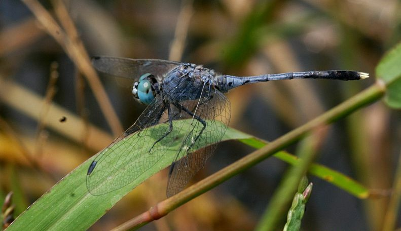 Diplacodes trivialis (male) dragonfly, Bannerghatta, India